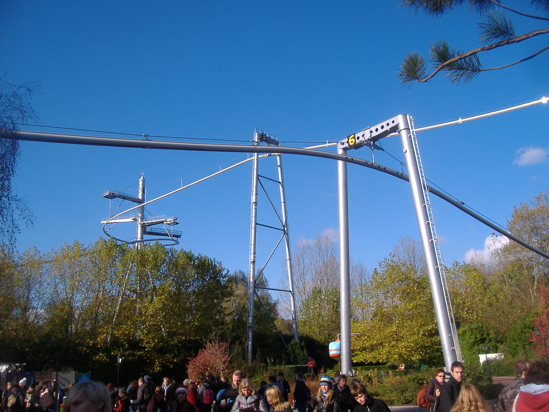 Vertigo (2006 - 2008) was a suspended roller coaster at Walibi Belgium.